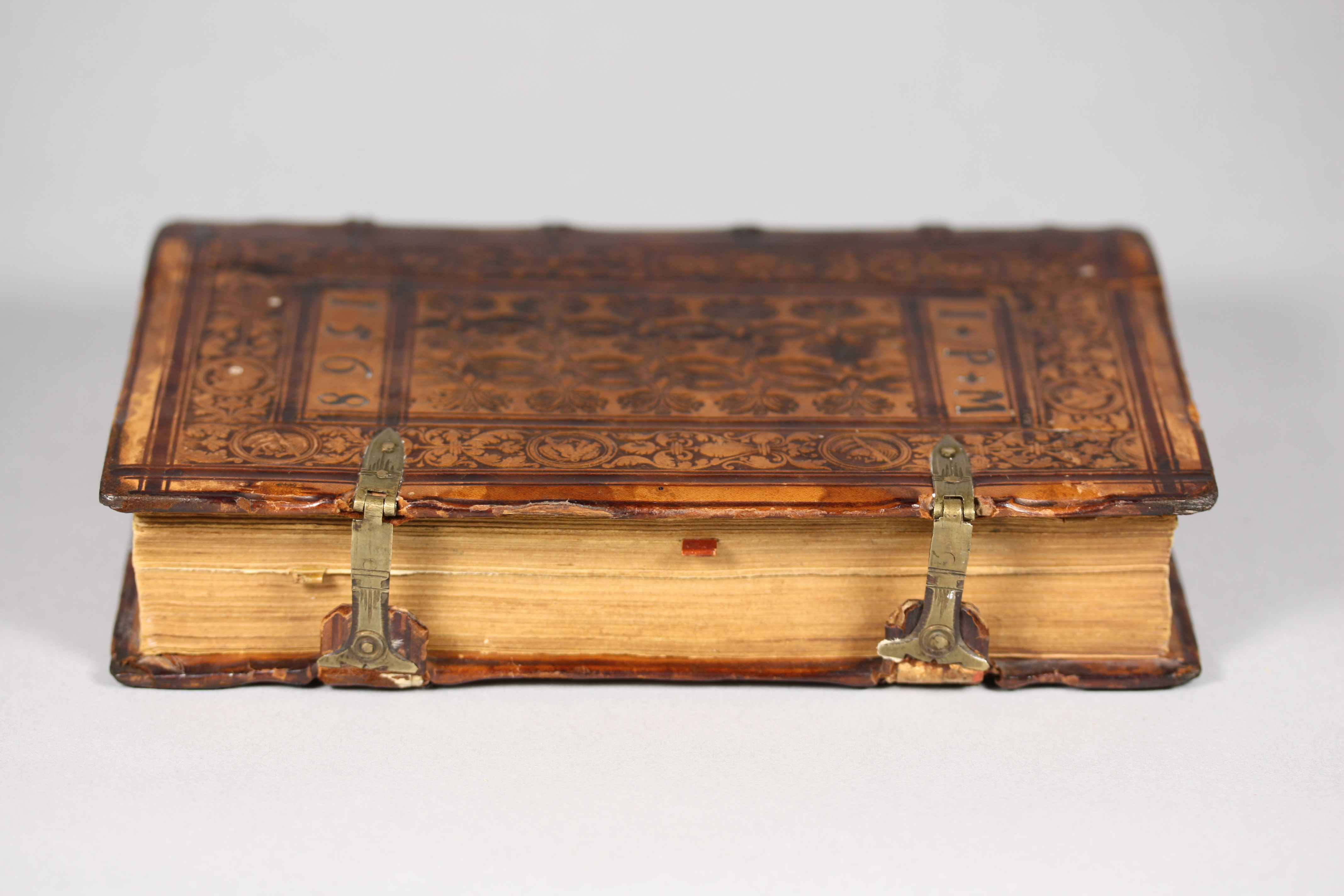 Sammelband containing Bernard of Trevisan, ϖερἰ χημείας opus historicum & dogmaticum (Strasbourg: Samuel Emmel, 1567); Zadith ben Hamuel (i.e., Muhammed ibn Umayl), De chemia senioris antiquissimi philosophi, libellus, ut brevis, ita artem discentibus, & exercentibus, utilissimus, & verè aureus (Strasbourg: Samuel Emmel, 1560); and Ars Chemica (Strasbourg: Samuel Emmel, 1566). The cover bears the date 1568. Exquisite Sammelband of extremely rare alchemical treatises printed by Samuel Emmel. This is the only copy of the first printing of Bernard of Trevisan in a North American library, and the earliest printed edition of the work of Zadith ben Hamuel, held in one other North American library. The Ars Chemica is noted for Isaac Newton’s many references to it. It is held in three other North American libraries.